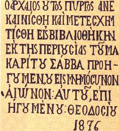 Inscription of the Tower of the Library of the Serres Monastery